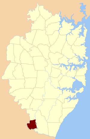 original location of the parish within Cumberland County, New South Wales (Sydney area)